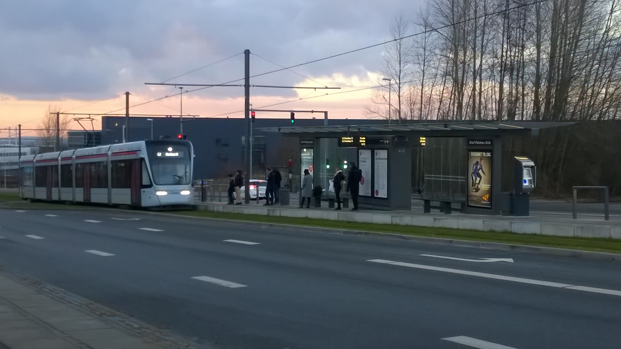 Olof Palmes Allé Station.